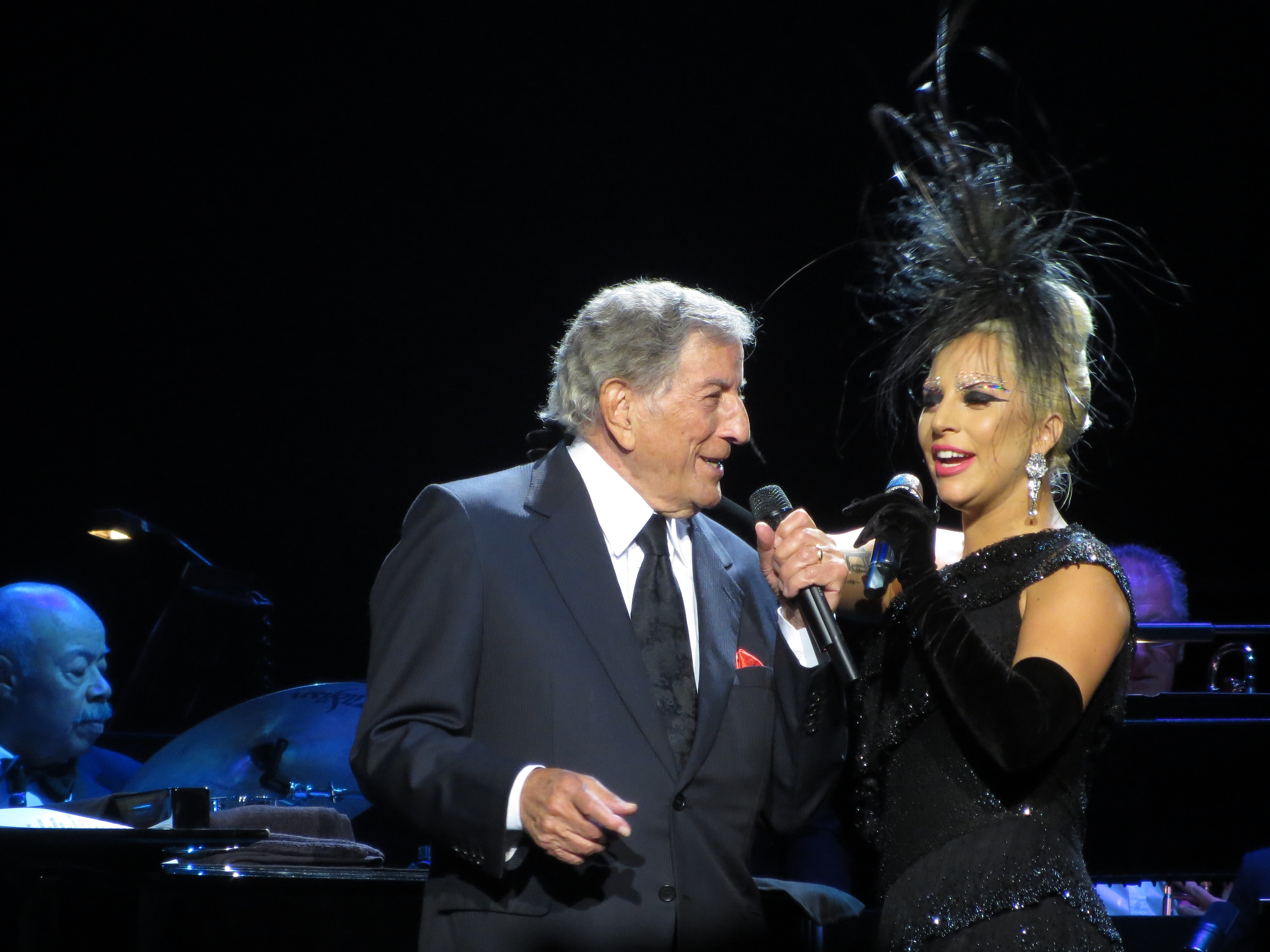 Tony Bennett & Lady GaGa, Cheek to Cheek Tour, London Royal Albert Hall, 8 June 2015.